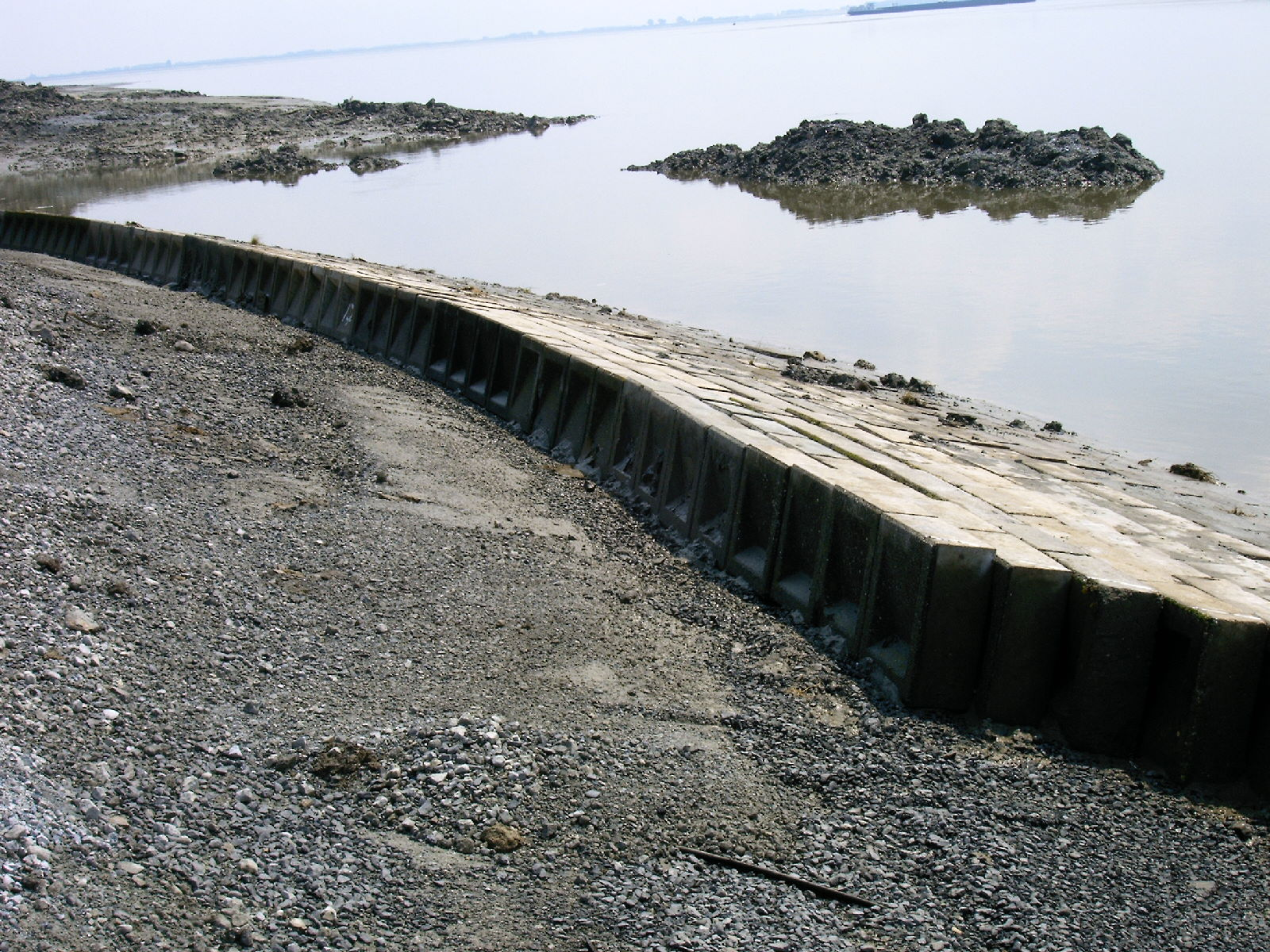 Tilted Haringmanbloks near Baarland, Westerschelde (Netherlands). These blocks were too thin, and re-used by tilting them